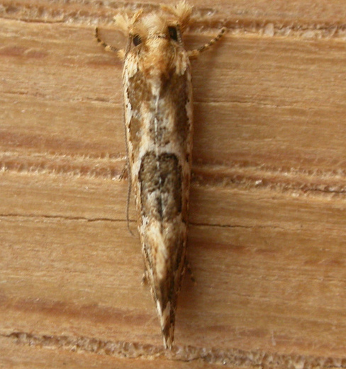 Moerarchis inconcisella